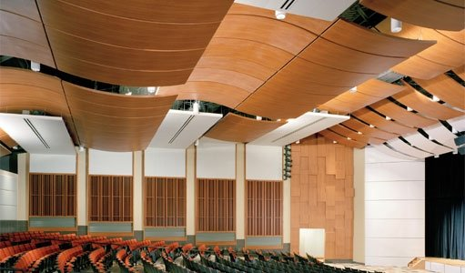 pa theatre 2